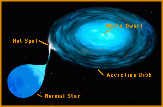 A diagram of a Cataclysmic Variable, showing the normal star, the accretion disk, and the white dwarf. The hot spot is where matter from the normal star meets the accretion disk.